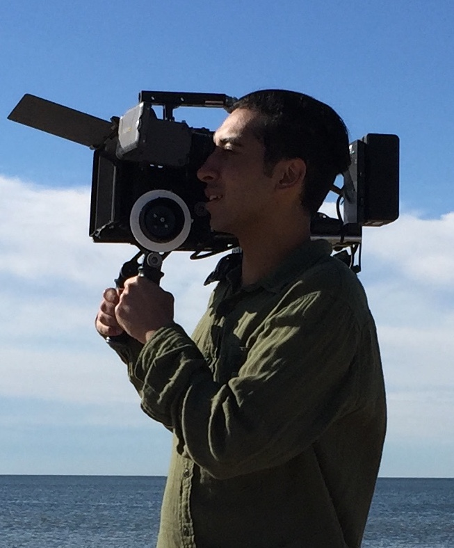 Sam Abbas, filmmaker